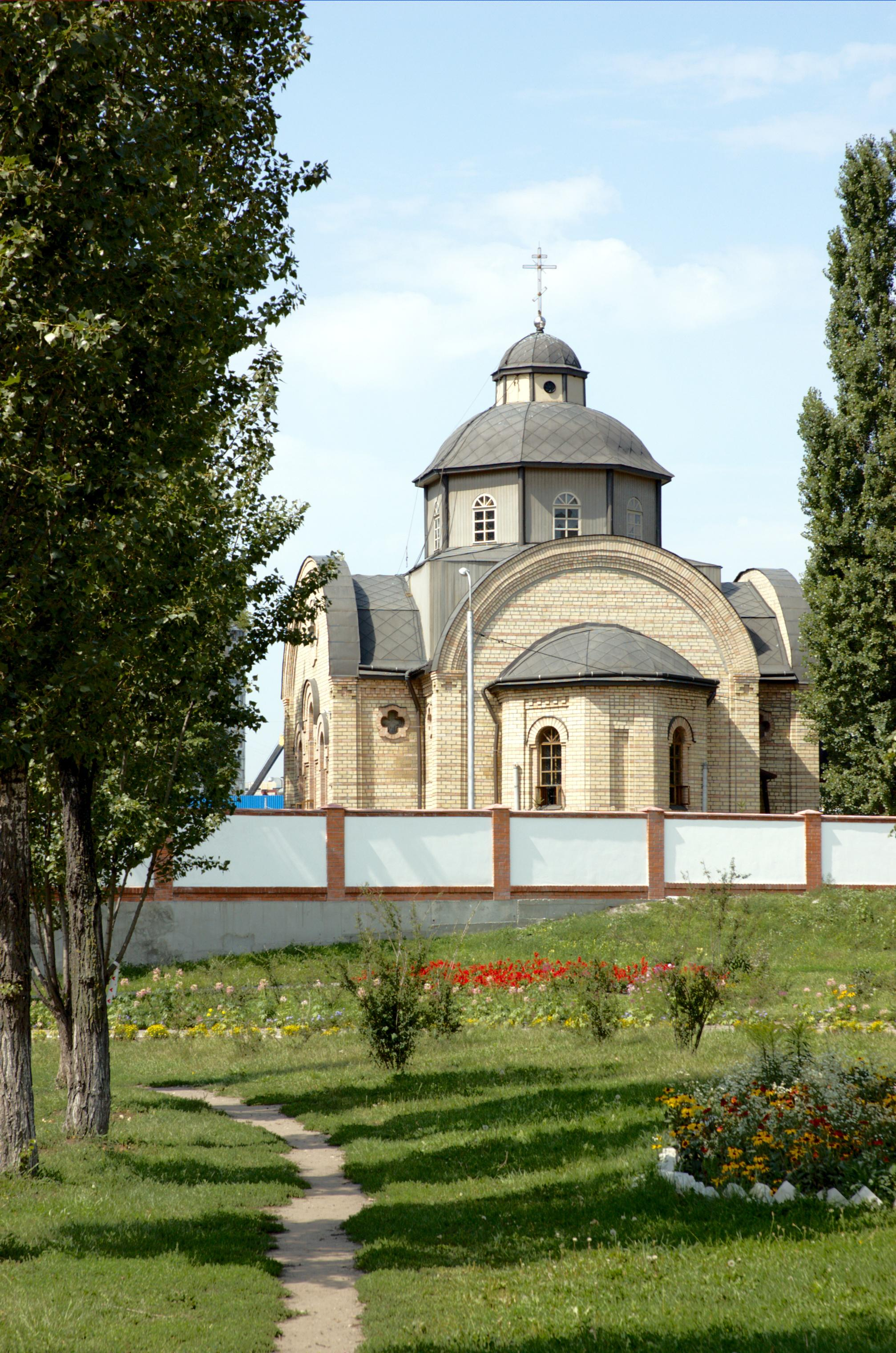 Saint Olga Parish, Kiev